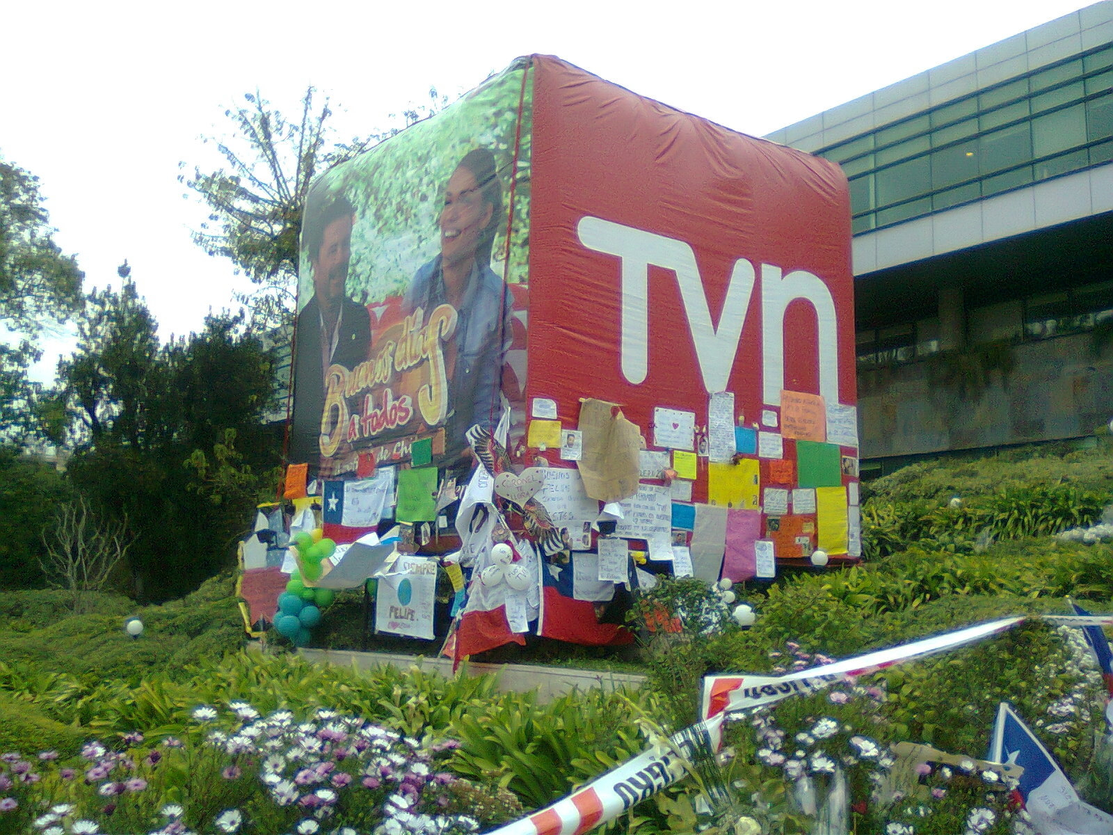 An inflatable baloon installed in the gardens of Televisión Nacional de Chile to mark the twentieth anniversary of the Buenos días a todos morning show. The photo in the baloon—showing entertainer Felipe Camiroaga with Carolina de Moras—took a different meaning when Camiroaga and other four members of the show died in a plane accident in the archipelago Juan Fernández, on September 2, 2011. Bellavista 0990, Providencia, Santiago de Chile, September 8, 2011.